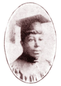 Graduation photo of Alice Woodby McKane from the 1892 Woman's Medical College of Pennsylvania yearbook